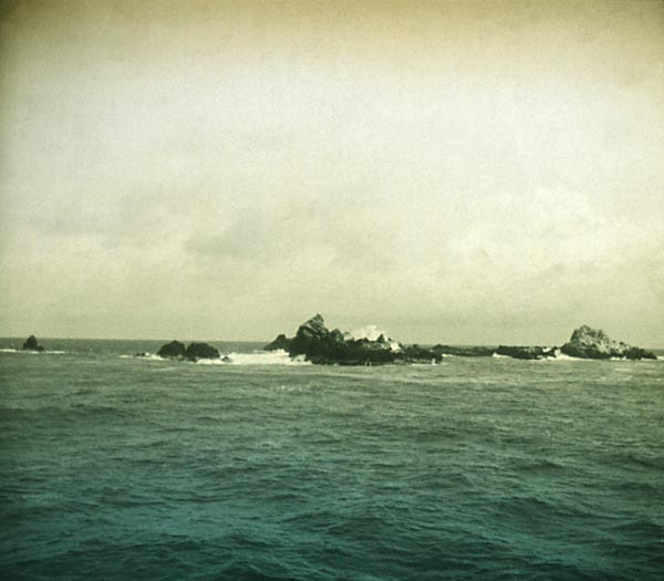 A photograph of St Paul's Rocks, off the Brazilian coast, taken during the Scottish National Antarctic Expedition's outward voyage in December 1902